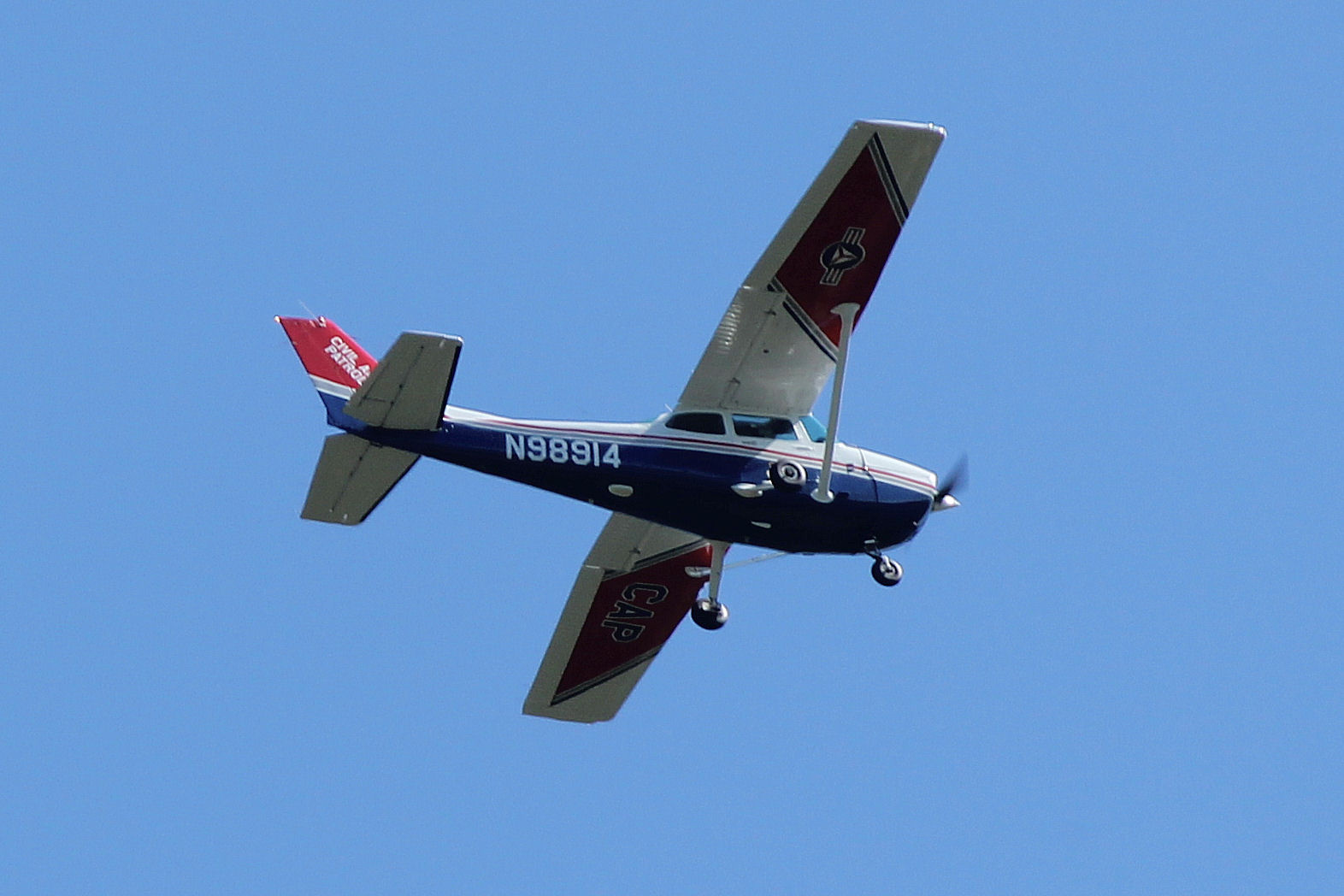 The Civil Air Patrol members who will help complement the Air Force’s missions as participants in the Total Force come from a culture that emphasizes safety. For the last decade, for instance, CAP aircraft accident rates have been significantly lower than the rates for general aviation.